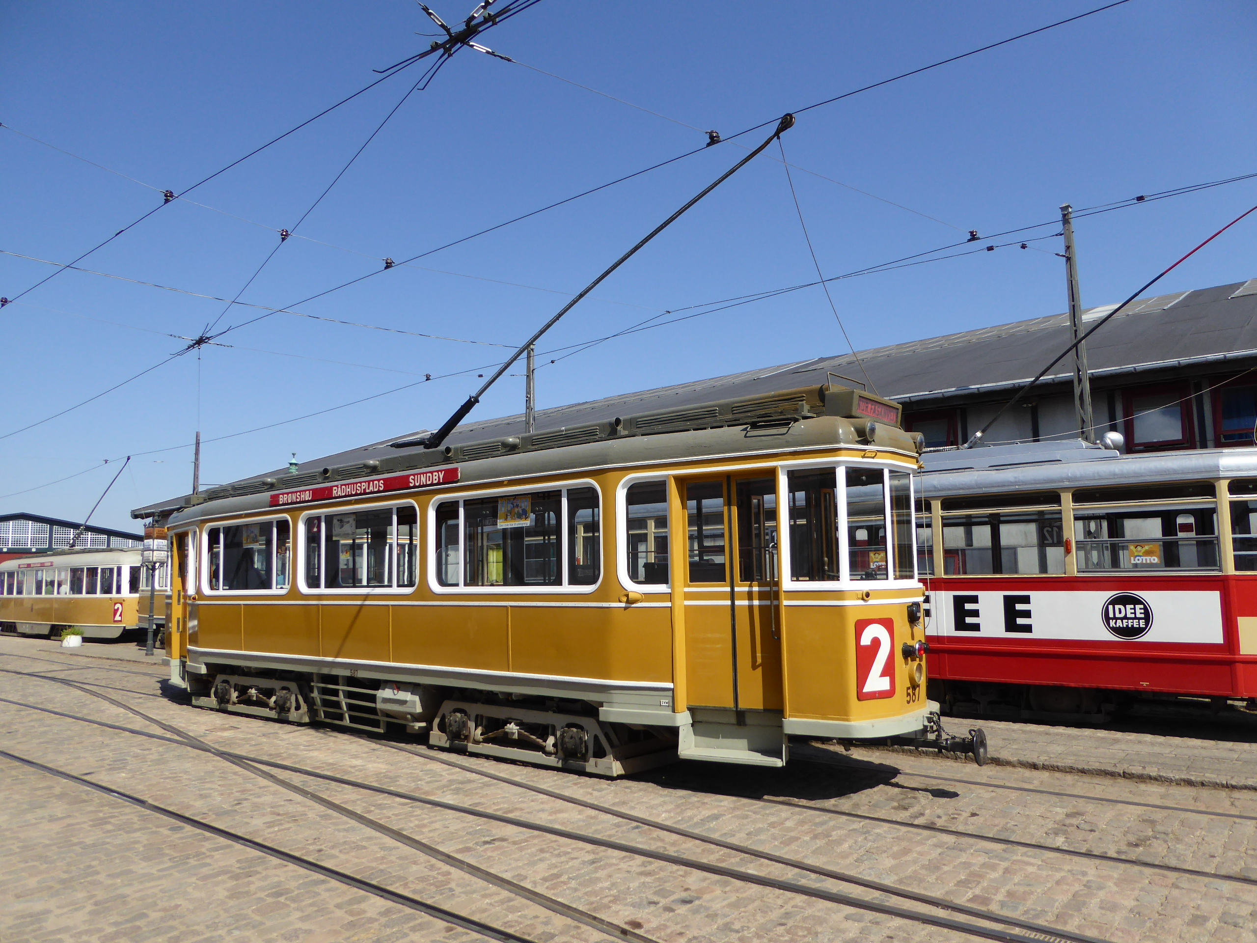 Old tram of Copenhagen, KS 587 from 1940, at Sporvejsmuseet Skjoldenæsholm in Denmark.